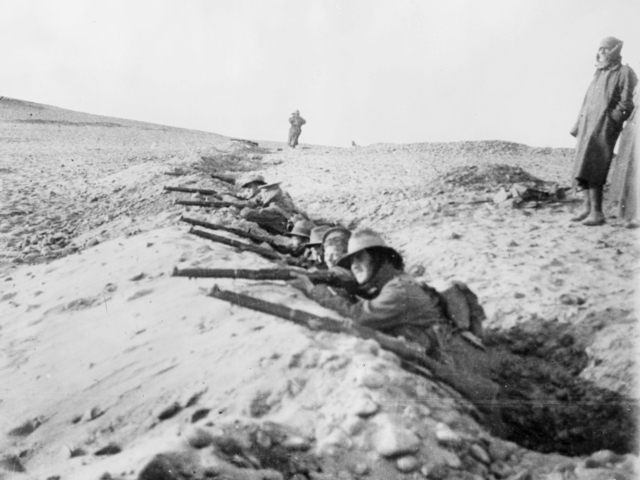 Soldiers from the Australian Imperial Force's 1st Battalion practising musketry from a trench near Mena in Egypt during March 1915